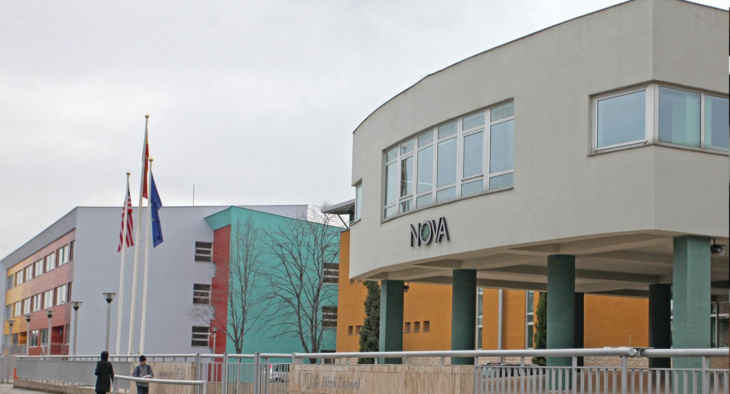 Front view of NOVA InternationalSchools